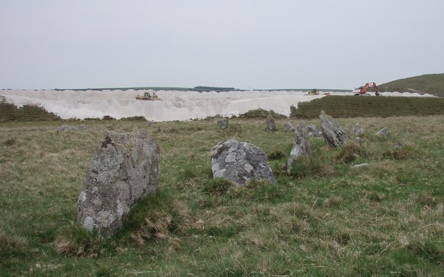 Stone Circle with modern china clay works. This very well preserved stone circle is right on the southern boundary of the Stannon China Clay Works. The china clay works are still very active.